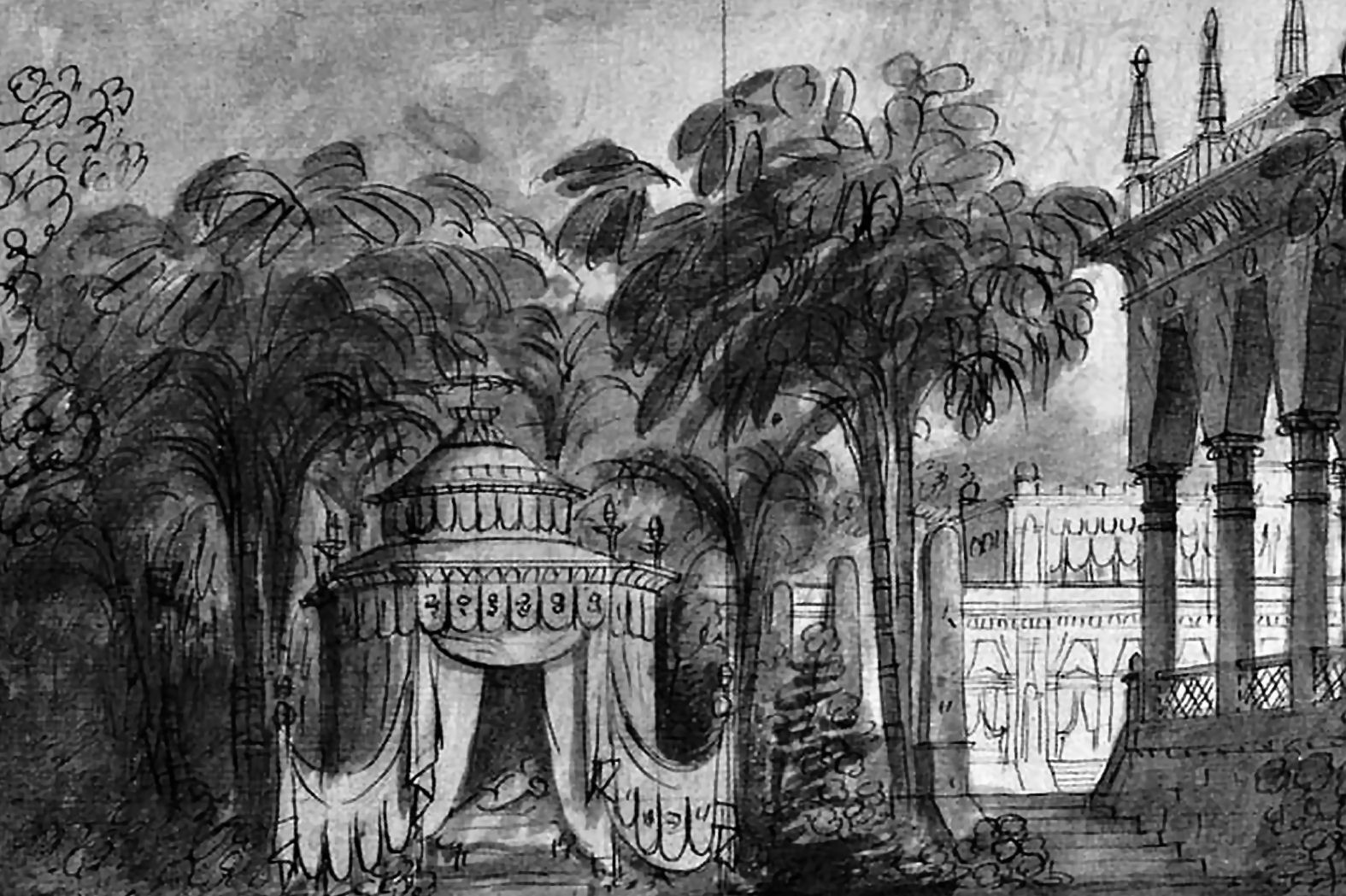 Francesco Bagnara's stage set (1835) for Giacomo Meyerbeer's Il crociato in Egitto (Act I, Scene 2)